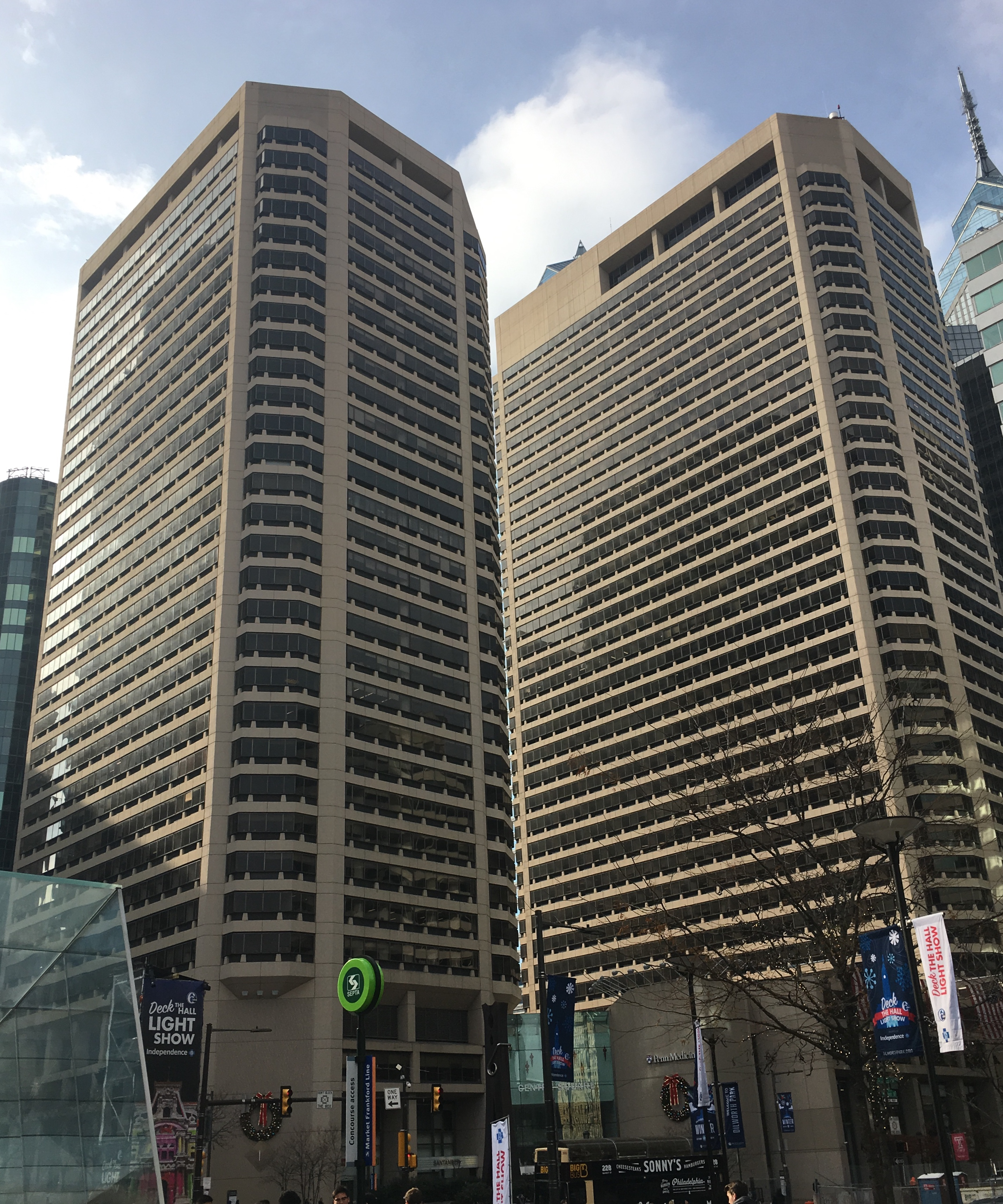 Centre Square in 2018